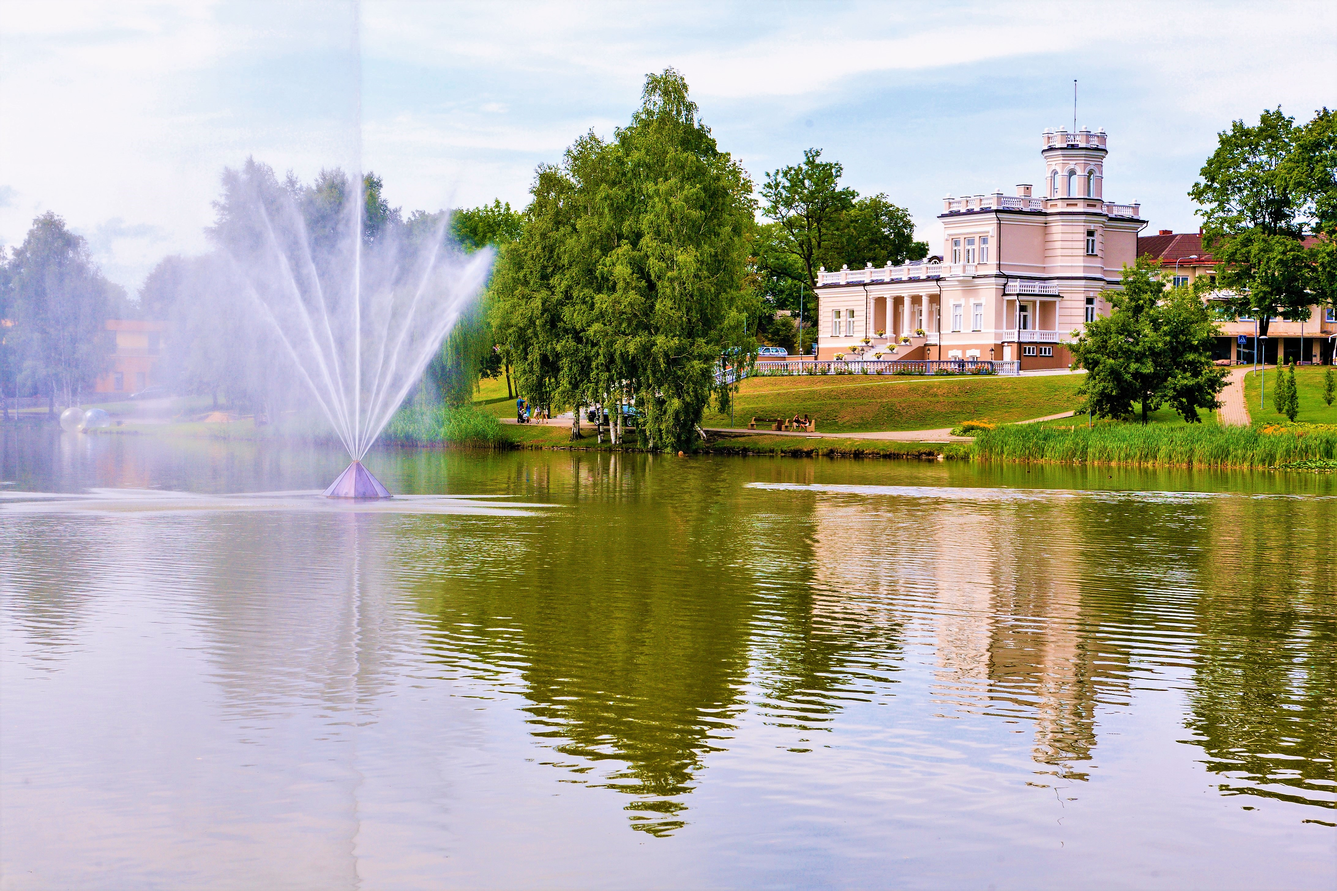 the fountain of Druskininkai